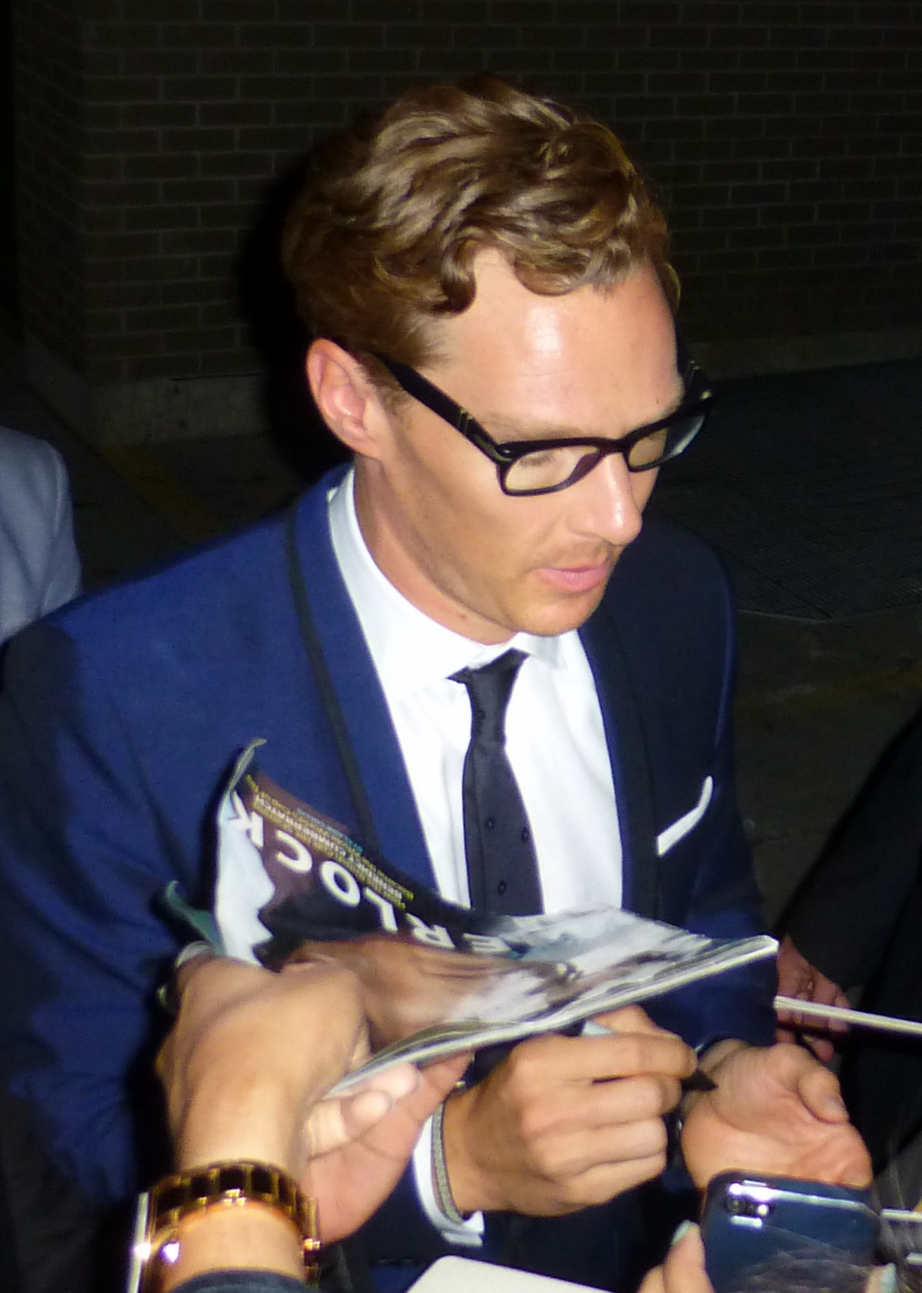 Benedict Cumberbatch at the premiere of The Imitation Game, 2014 Toronto Film Festival